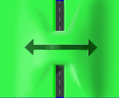 Very simplified block diagram of a écoduc (wildlife crossing / overpass) constructed as overpass on a road (with form as a "diabolo"). In reality the accommodation of animals and organisms we wish to see or are made through these passages. (Trees, shrubs, ponds, rocks, dead wood, etc.). This type of transition is not generally open to the public because human scent or the scent left by dogs can scare away animals. Protection of limiting noise and artificial lighting, light beams or headlights are often installed along the upper portion.